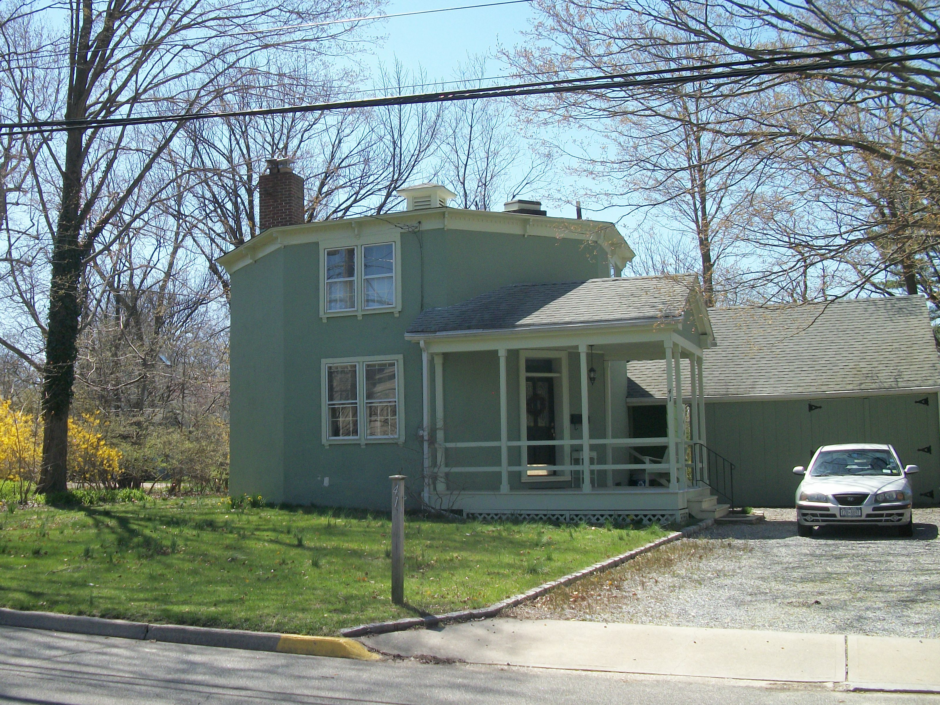 The Prime-Octagon House, right next door to the Ezra C. Prime House and across the street from Heckscher Park and Art Museum in Huntington, New York.